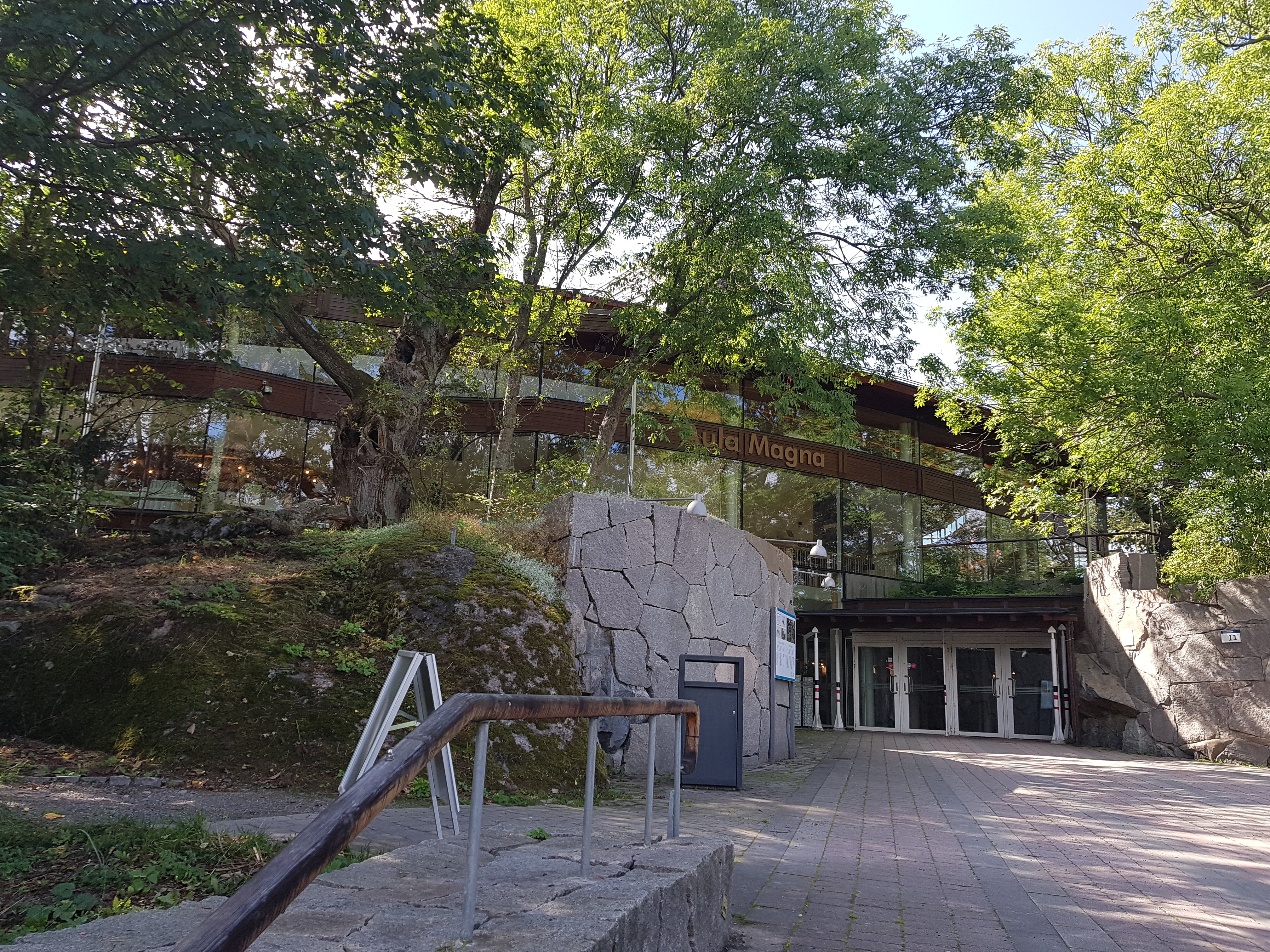 Aula Magna, University of Stockholm, main entrance 15.8.2019